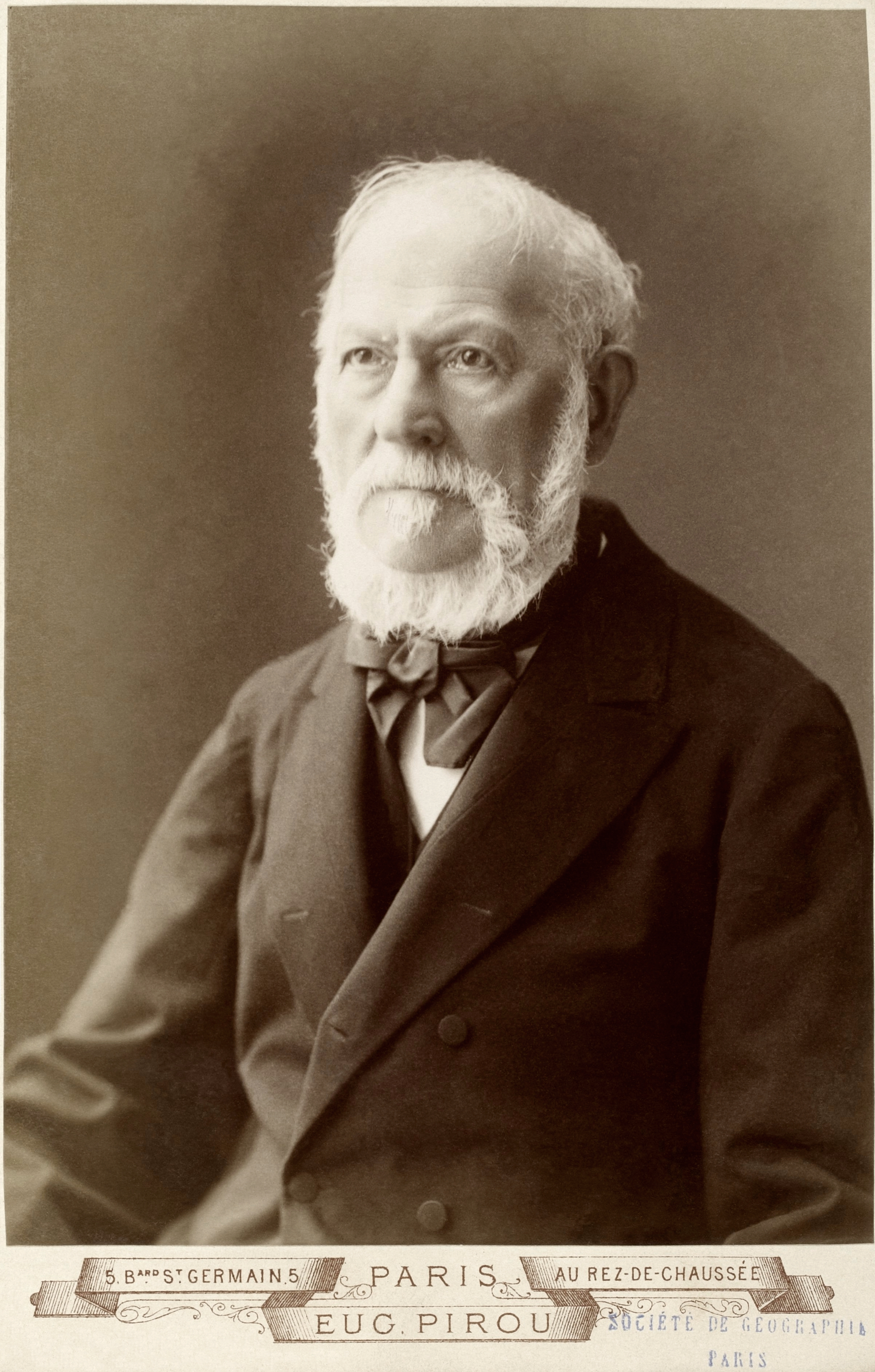 Henri Martin (1810 - 1883), french historian, politician and academician.